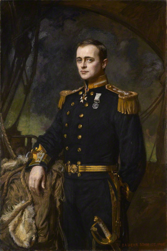 Robert Falcon Scott by Daniel Albert Wehrschmidt (Veresmith) oil on canvas, 1905 59 1/2 in. x 39 1/2 in. (1511 mm x 1003 mm) Accepted in lieu of tax by H.M. Government and allocated to the Gallery, 2012 NPG 2079